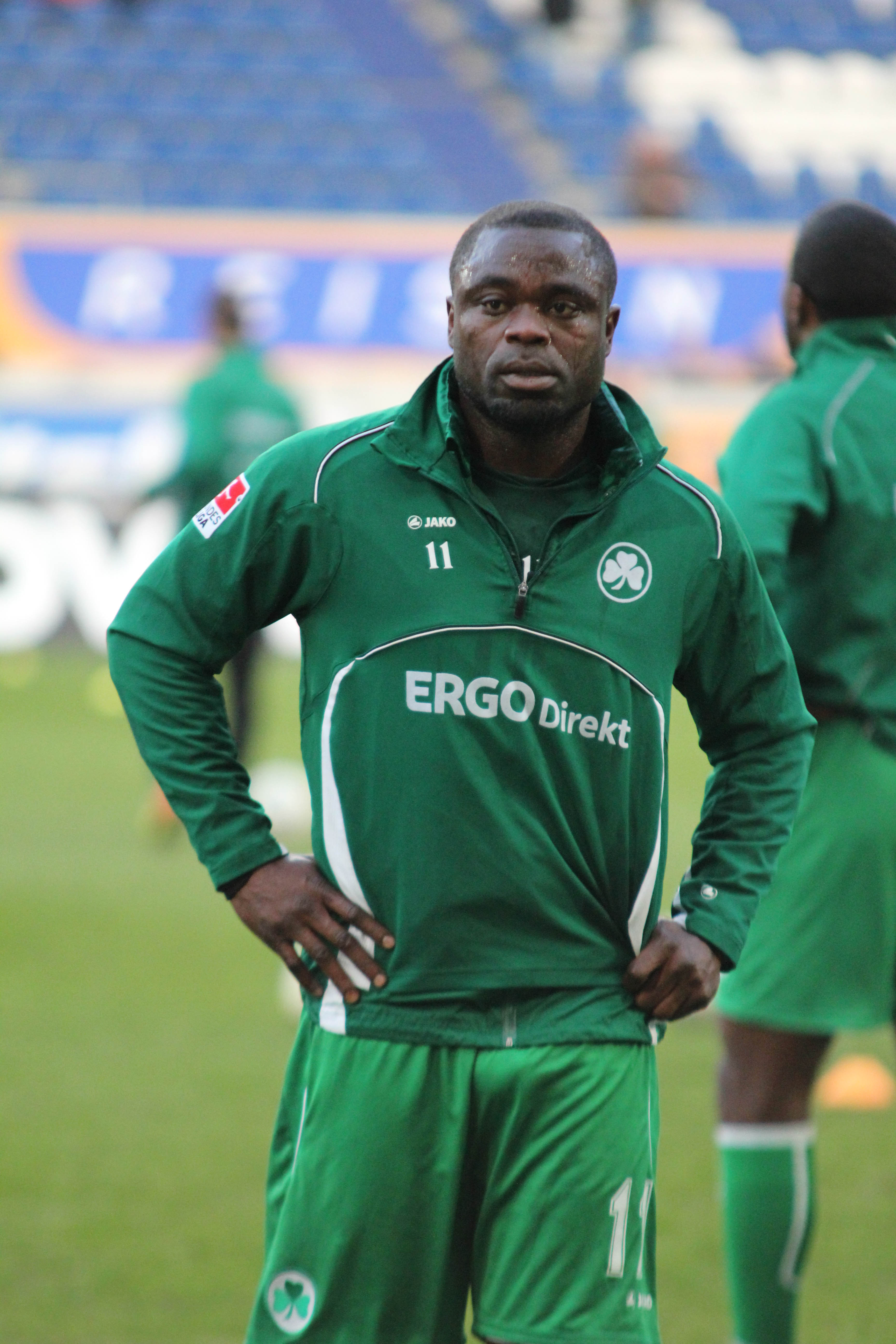 German footballer Gerald Asamoah, SpVgg Greuther Fürth